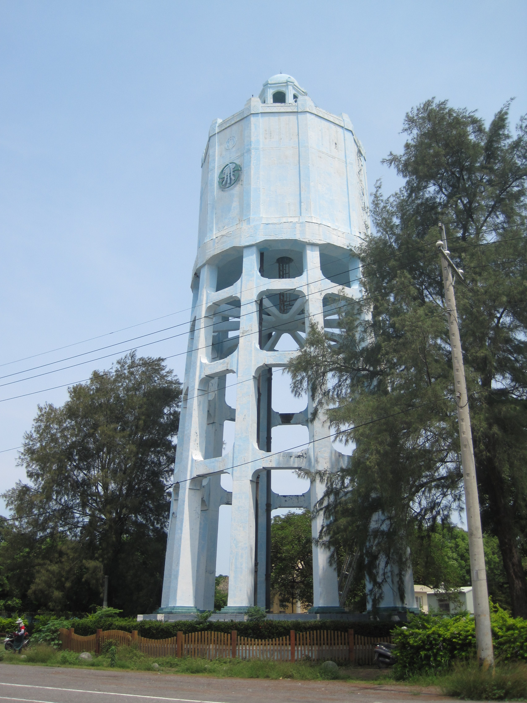 Puzi Water Tower